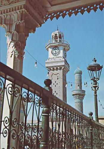 A view of the clock tower of the Abdul Qadir al-Gailani mosque in 1979.